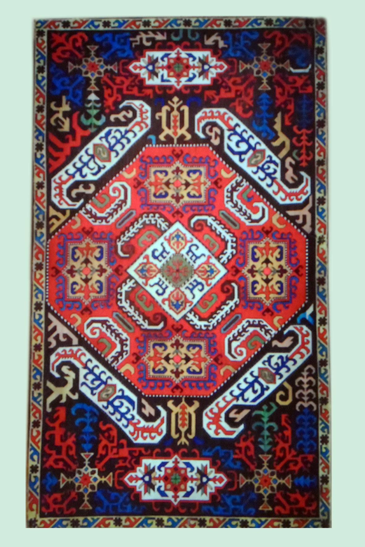 "Embroidery Gasimushagy" - Azerbaijanian silk embroidery, Karabakh school, Jabrayi (Cəbrayıl) group, 17th century.